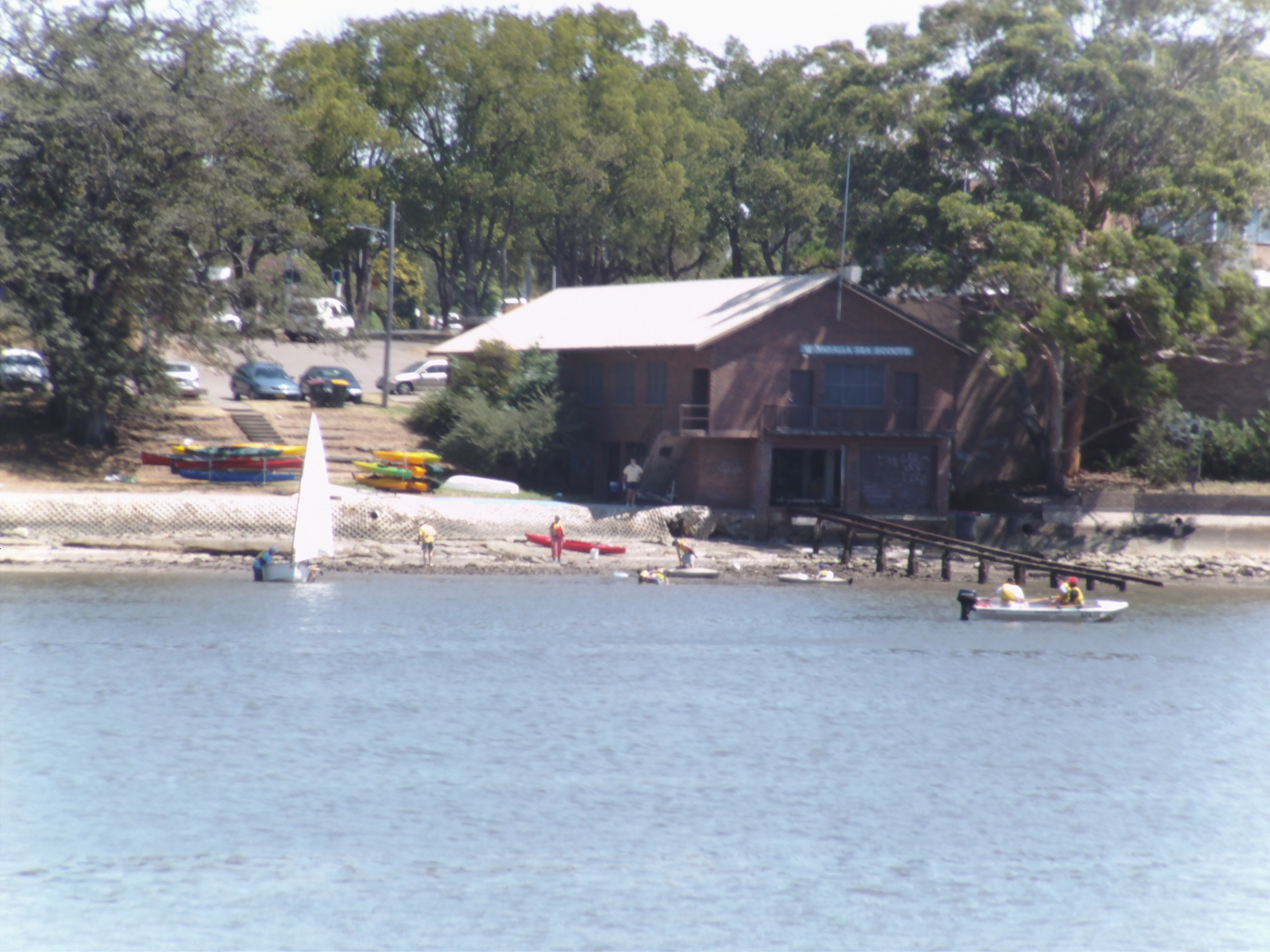 View of First Yaralla Sea Scouts at Rhodes looking South West across Parramatta River from Ryde. To the left is east to the Sydney CBD, to the right is West to Parramatta.